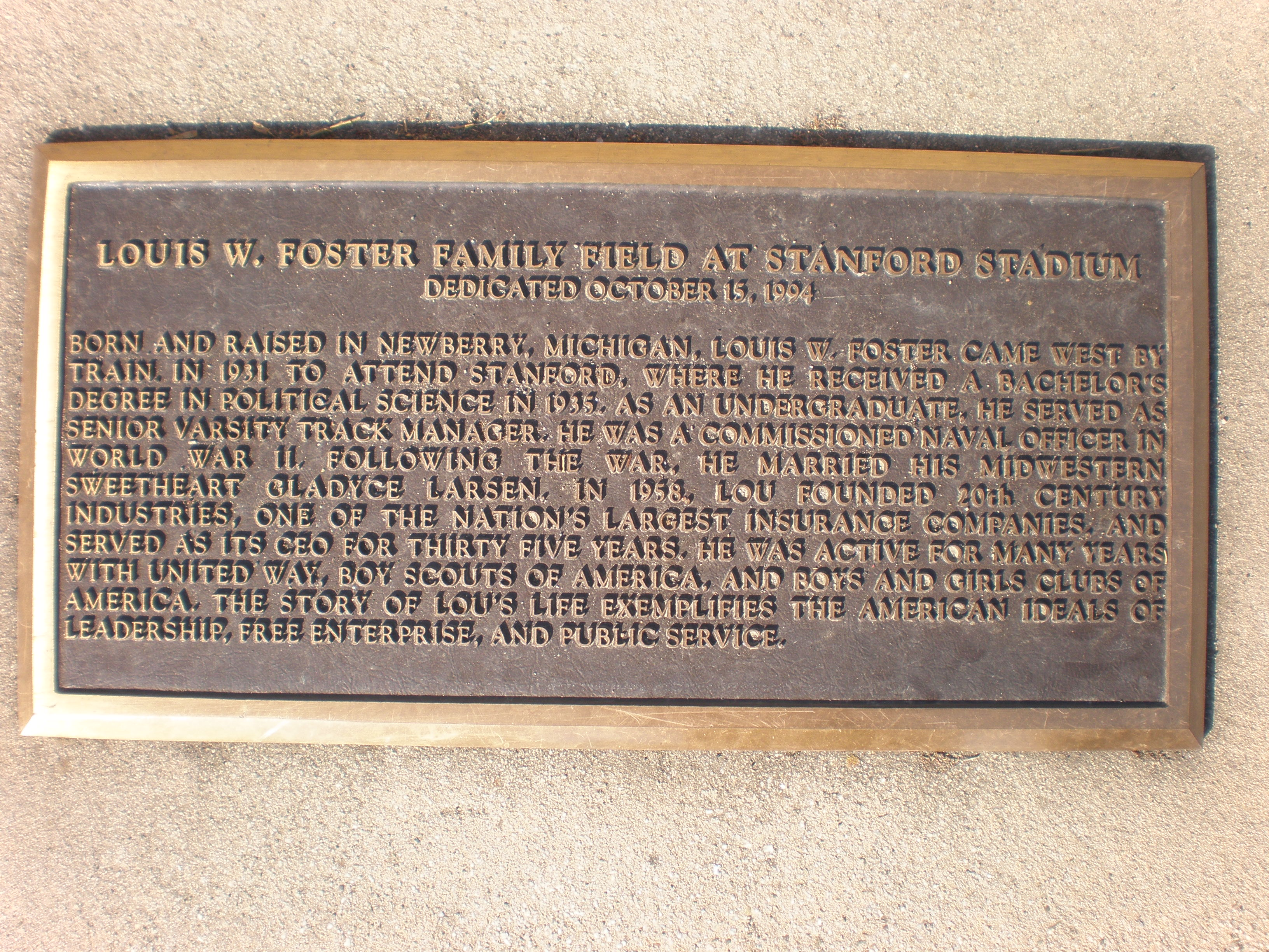 A plaque at a memorial to Louis W. Foster, the namesake of Louis W. Foster Field at Stanford Stadium on the Stanford University campus in Stanford, California. See also File:Louis W. Foster Family Field memorial.JPG.